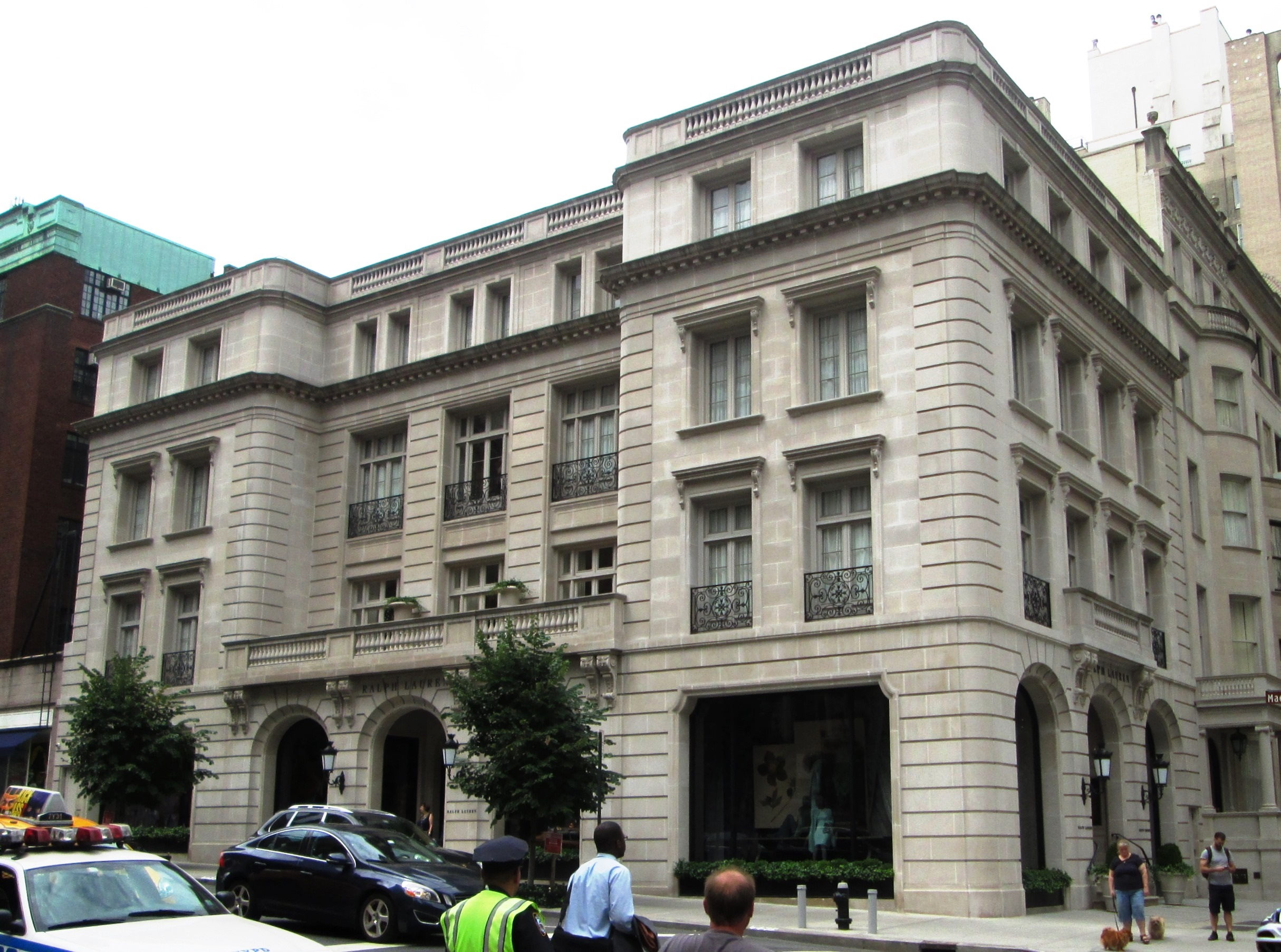 888 Madison Avenue at the corner of East 72nd Street in the Lenox Hill neighborhood of Manhattan, New York City was built in 2010 by Ralph Lauren, and was designed by HS2 (Hut Sachs Studio) in an imitation of the Beaux-Arts style. (Source: AIA Guide to NYC (5th ed.))